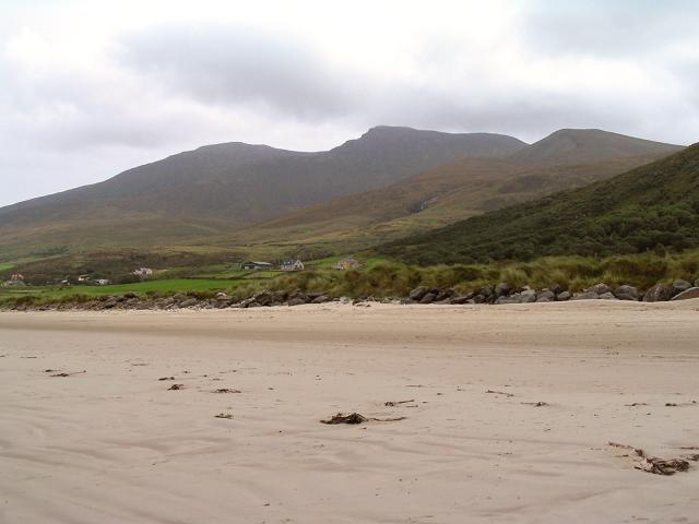 Kilcummin, Co. Kerry. In the background is Stradbally Mountain, the highest peak being 'Beenoskee', at 824 metres.